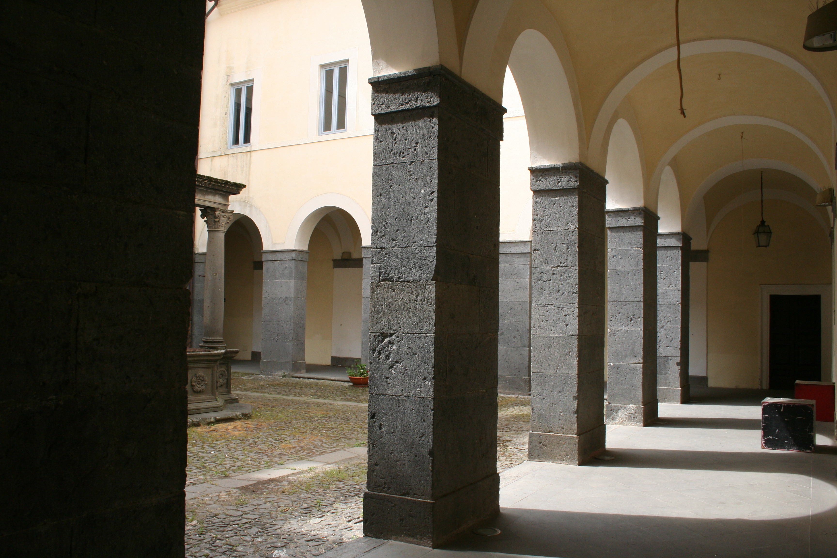 Civic Museum